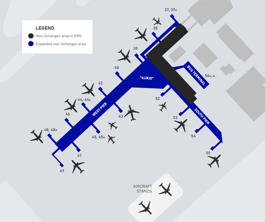 An updated version of the previous map showing how the non-Schengen area of Helsinki Airport has been expanded.